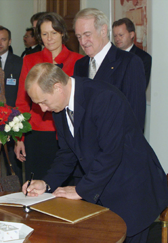 BERLIN. President Vladimir Putin with German President Johannes Rau and his wife Christina. Signing the Visitors\' Book.